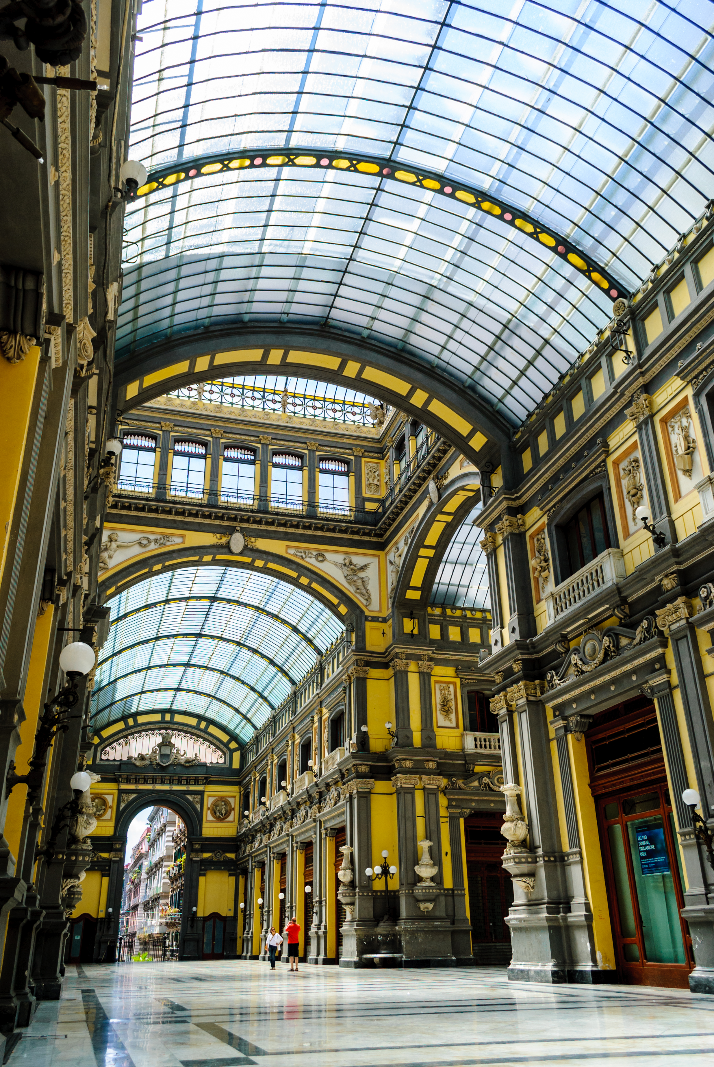 The interior of the Galleria Principe di Napoli, and south entrance.